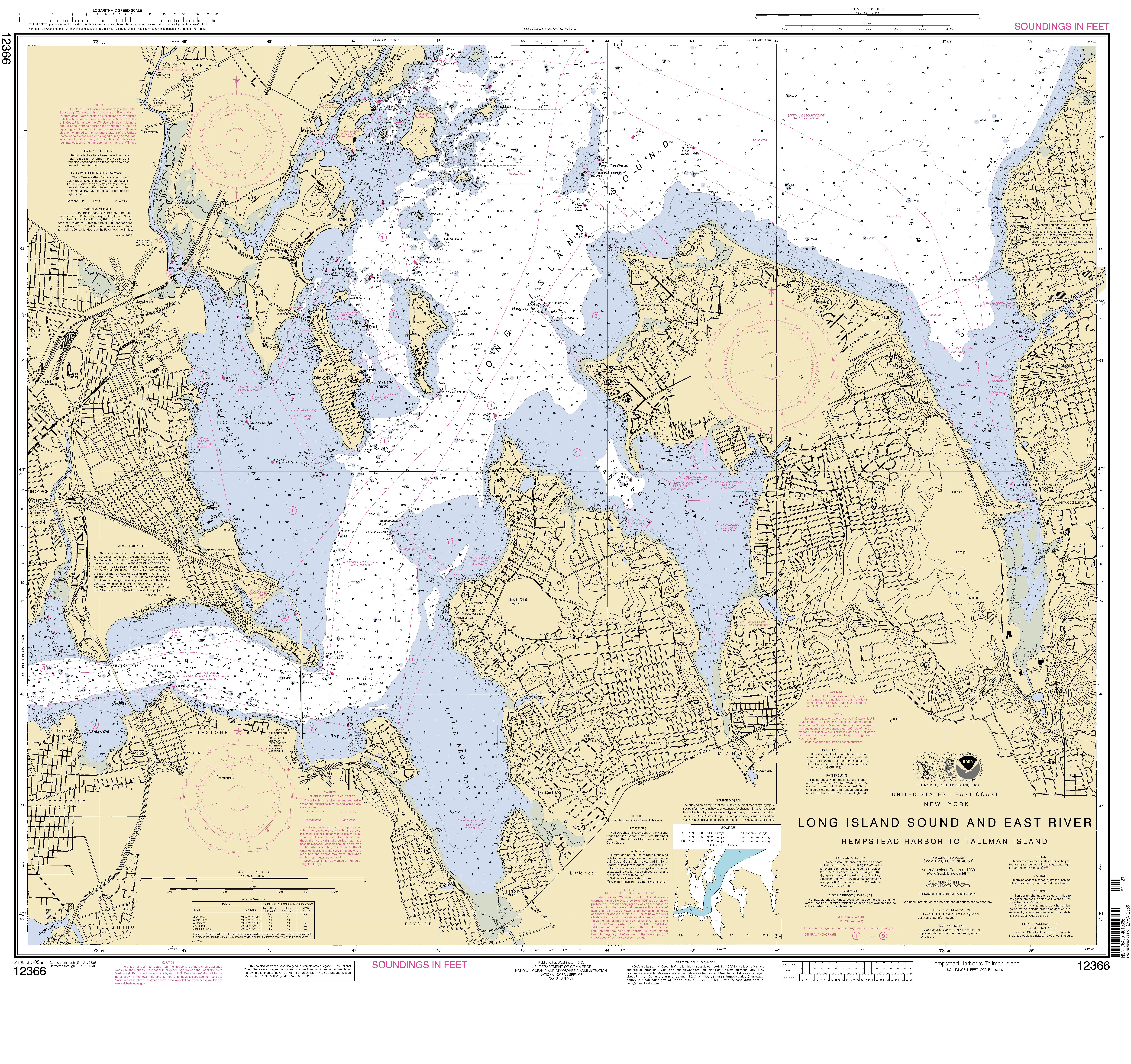 Long Island Sound and East River, Hempstead Harbor to Tallman Island. 29th Edition